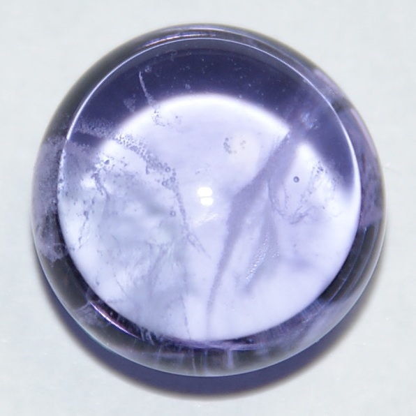 Blue neodymium glass bead, stained with neodymium oxide (Nd2O3). Diameter 1 cm.